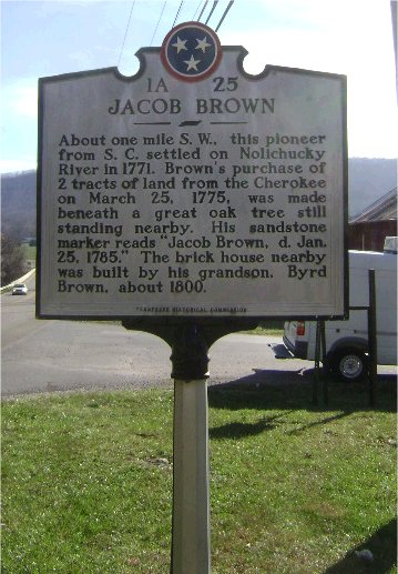 The Tennessee historical marker describing the Jacob Brown Grants is located on Tennessee Highway 81 at Taylor Bridge Road in Washington County Tennessee. The junction is at the place where Thomas Bridge crosses the Nolichucky River.